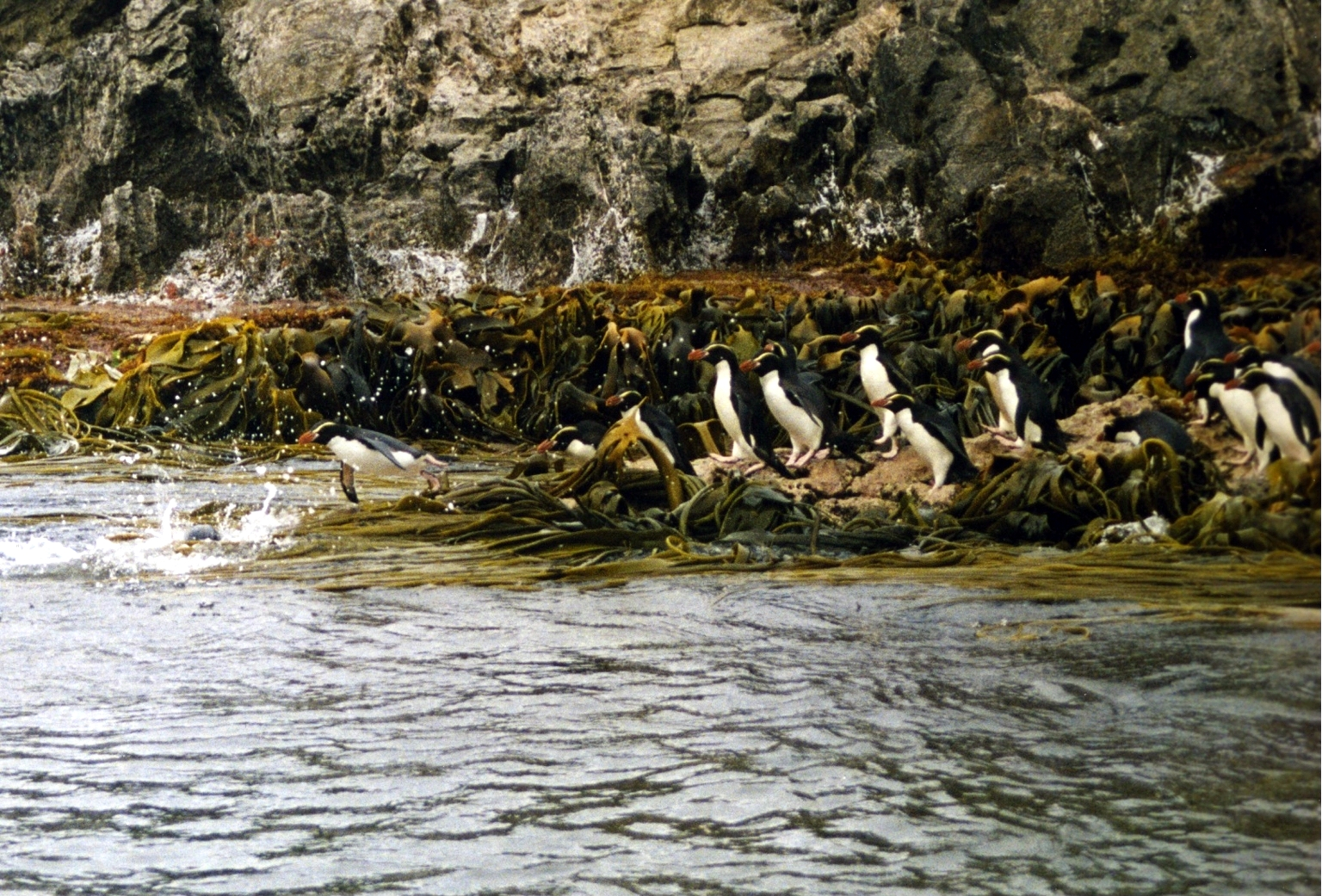 Snares Penguins (Eudyptes robustus) are diving.